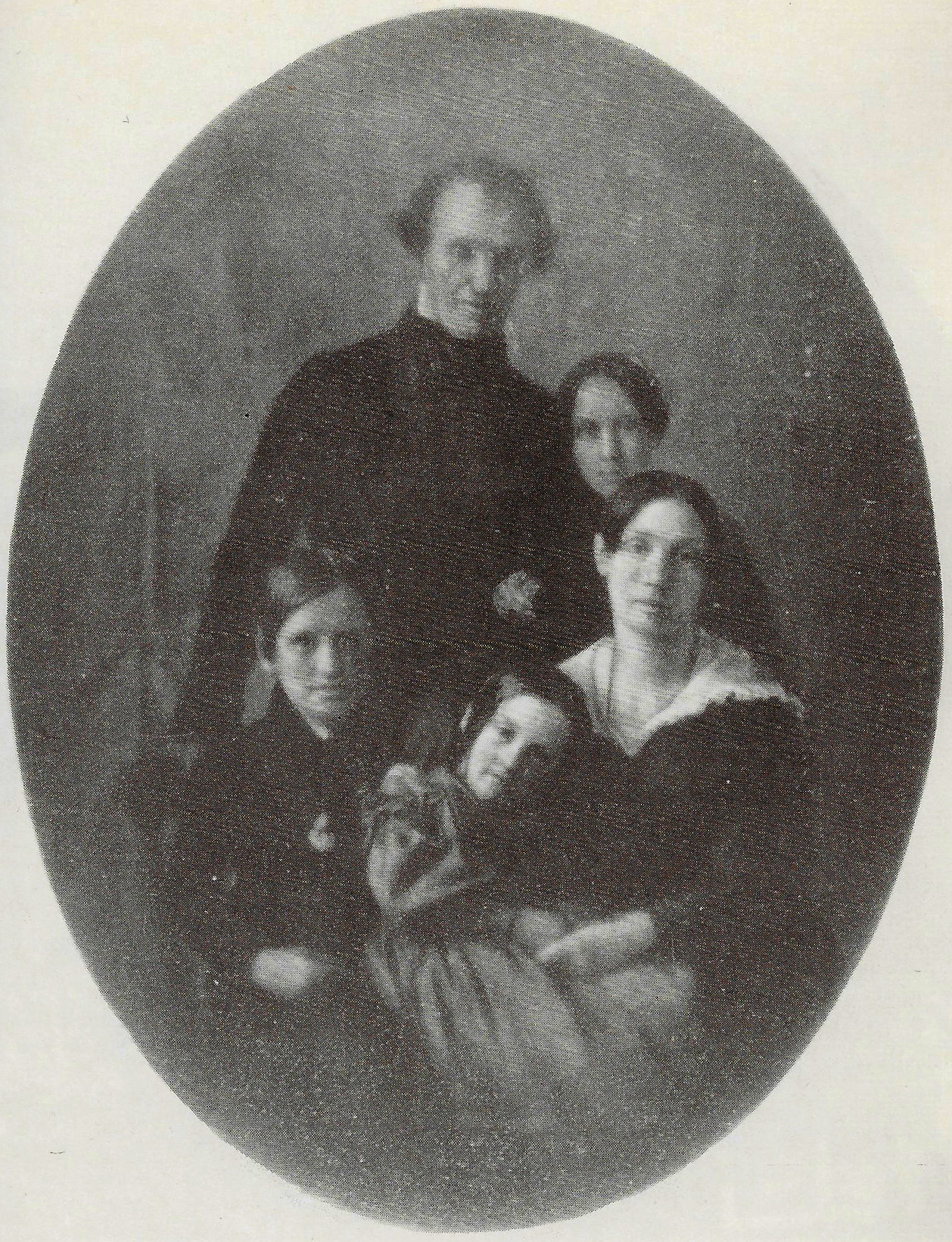 Daguerrotype circa 1843 of Neal family: eccentric and influential writer, critic, and activist John Neal (tallest figure), wife Eleanor Hall Neal (seated furthest right), and their children (L-R) James Neal, Margaret Eleanor Neal (seated on Eleanor's lap), and Mary Neal. Scanned from a page in the 1972 book That Wild Fellow John Neal and the American Literary Revolution, by Benjamin Lease, originally from the collection of Mrs. Sherwood Pickering.